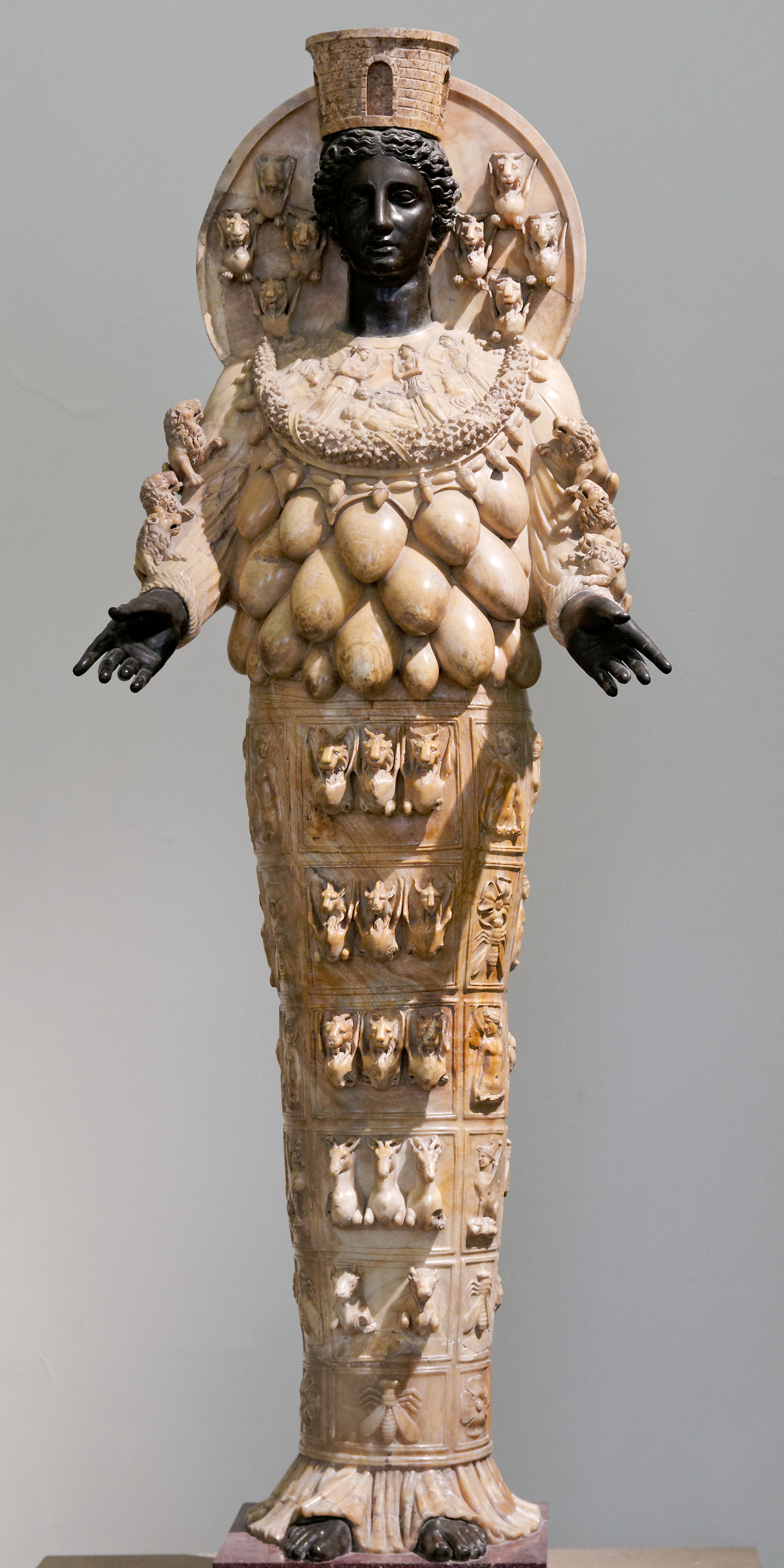 Statue of the type of the Artemis of Ephesus. The head, hands and feet are a modern restoration by Giuseppe Valadier.